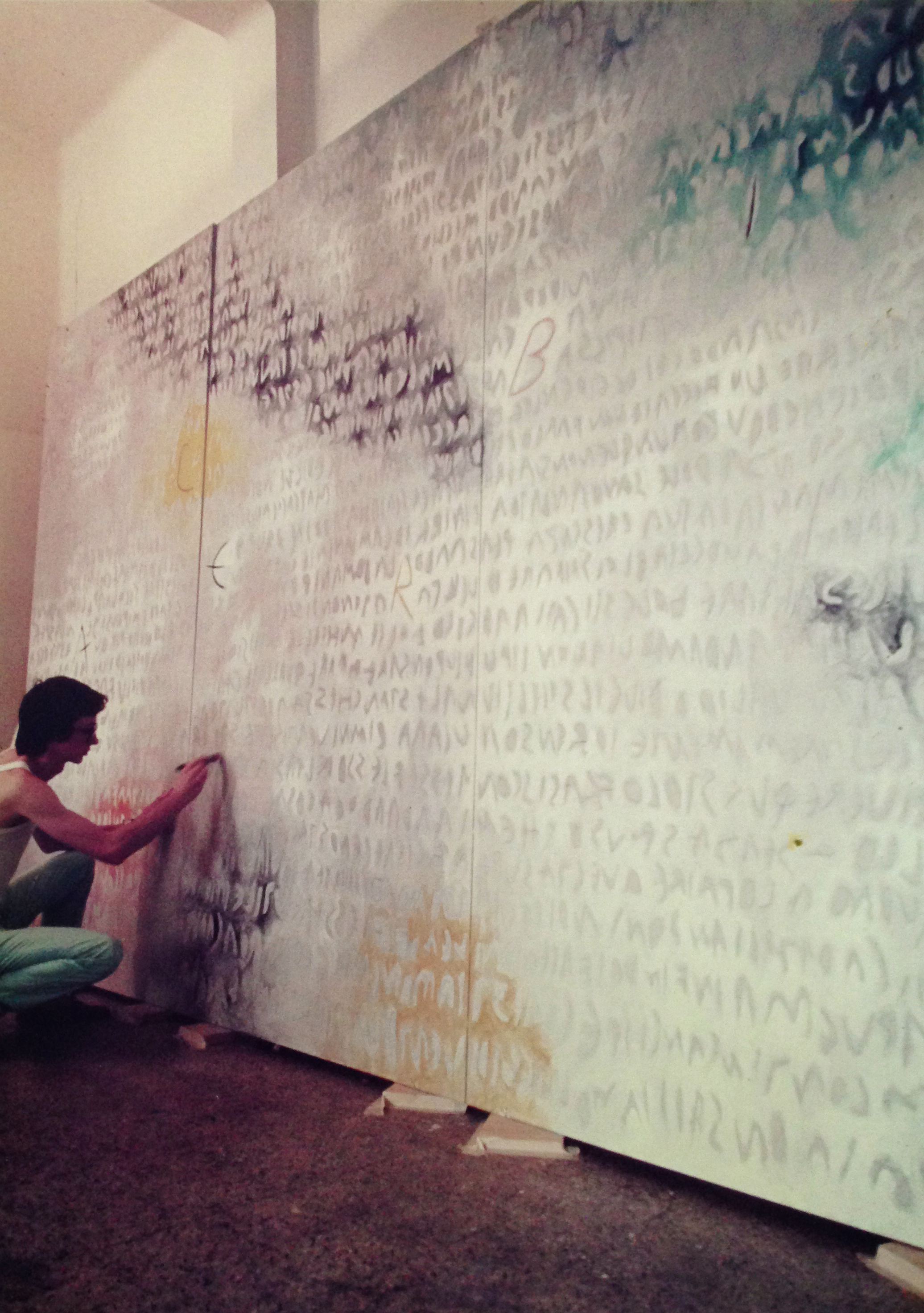 The artist Renzo Nucara at work, 1982